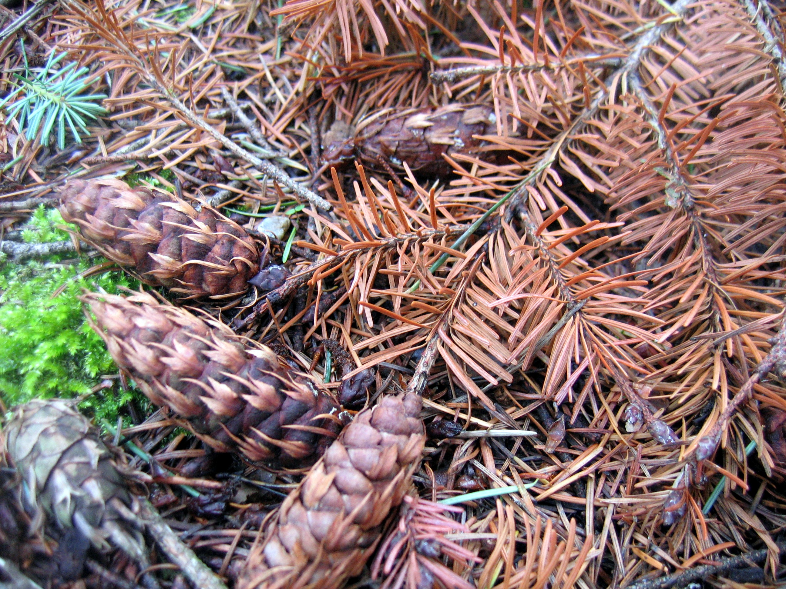 Douglas-fir (Pseudotsuga menziesii subsp. menziesii) fallen twig and mature cones, tree cultivated in the forest east to Łazy, area of the nature reserve "Łazy", Poland.